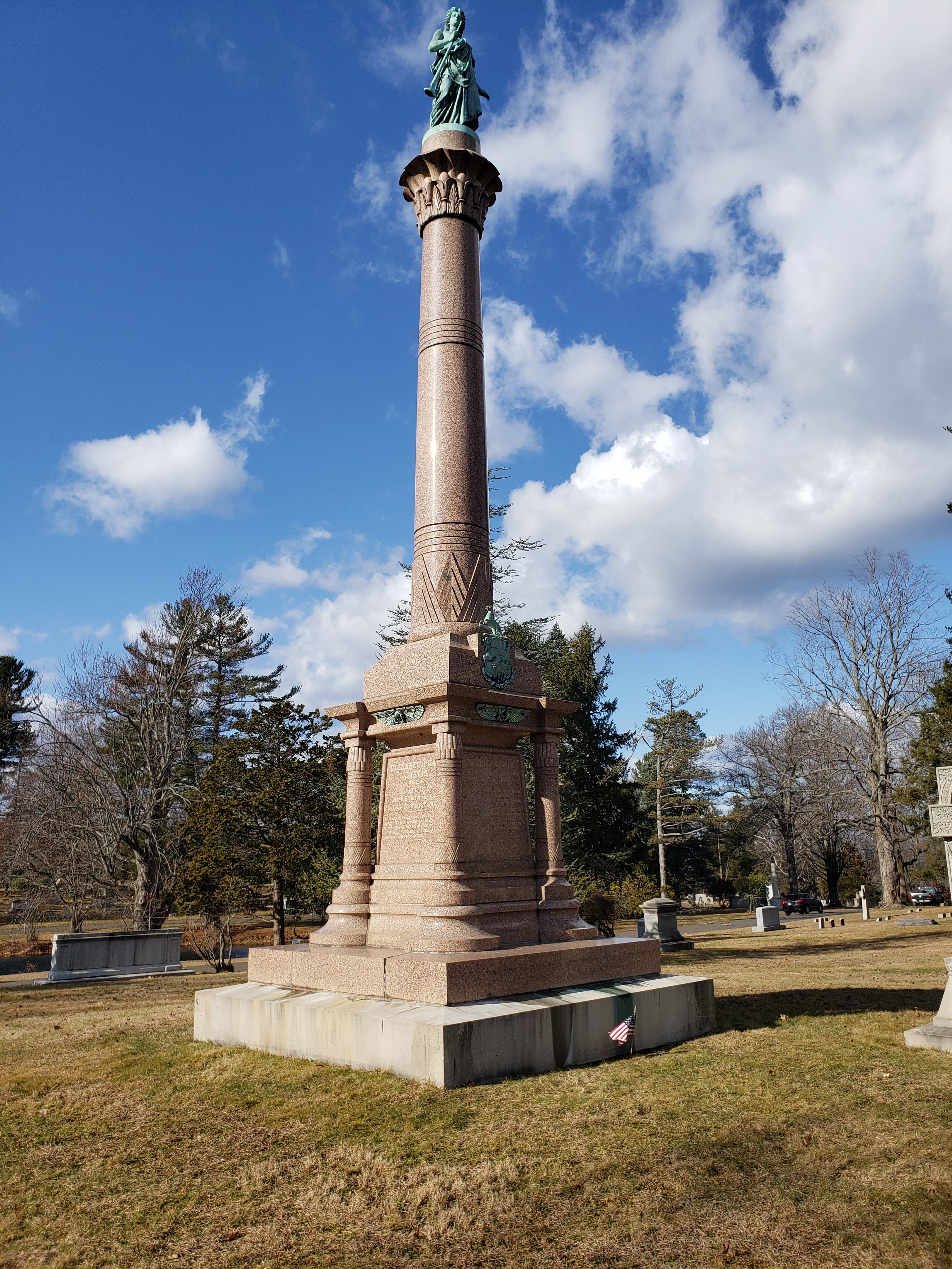 Samuel Colt memorial in Cedar Hill Cemetery in Hartford, Connecticut. Photo taken January 2020.